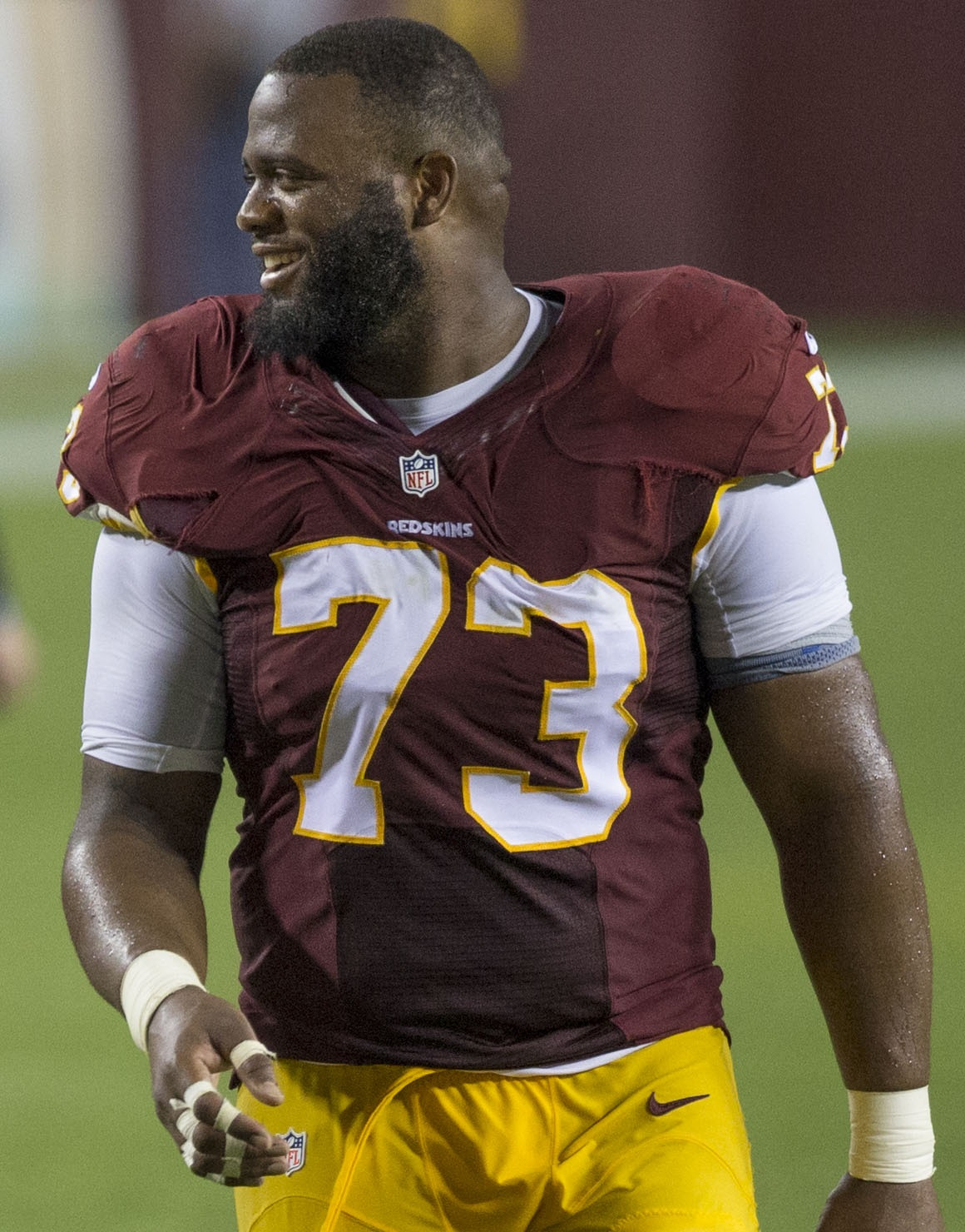 Jaguars at Redskins 9/3/15